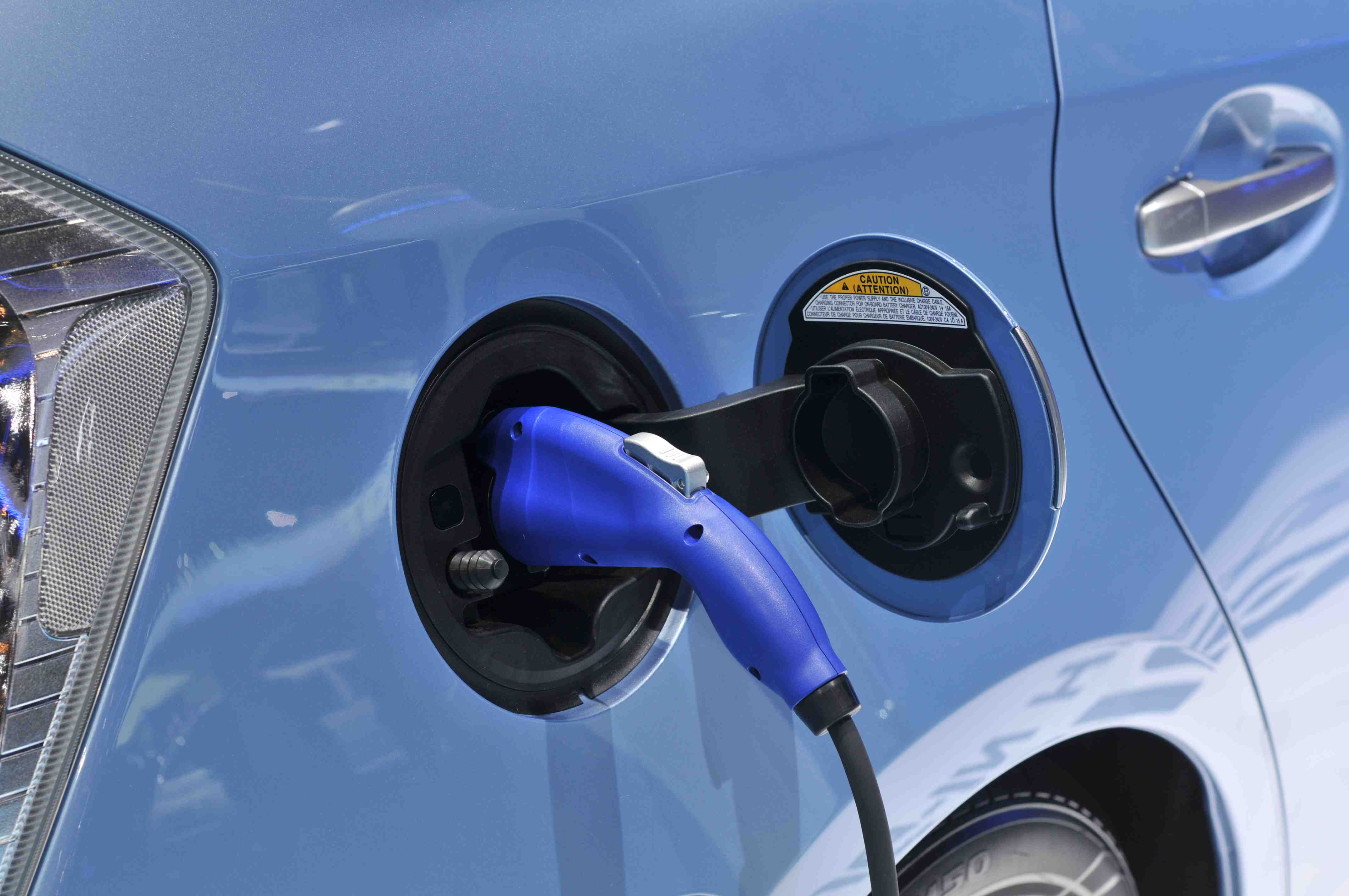 Production Prius Plug-in Hybrid unveiled at the 2011 Frankfurt Motor Show